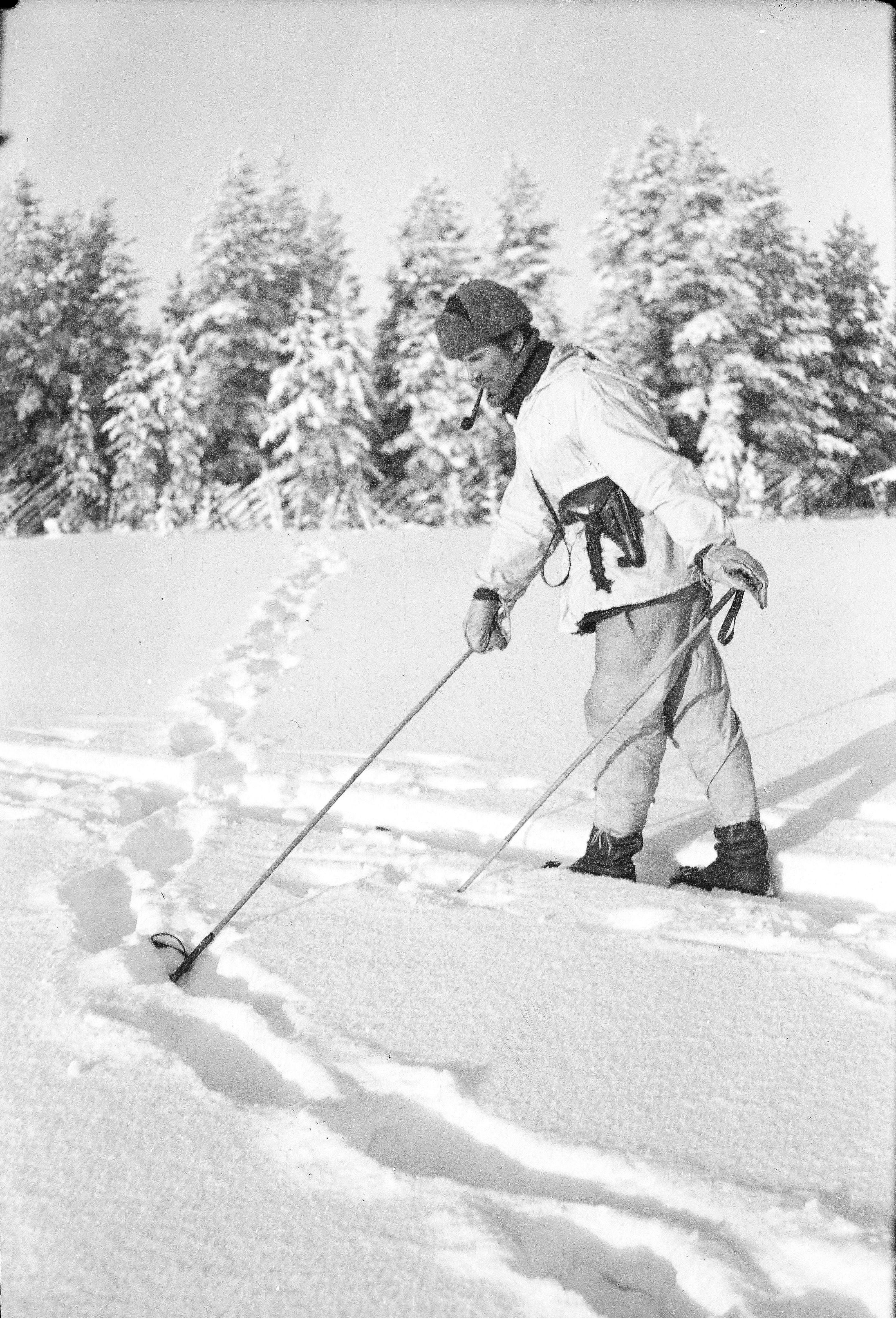 Soviet tracks at Kianta Lake during a pursuit. Timo Murama in the picture.